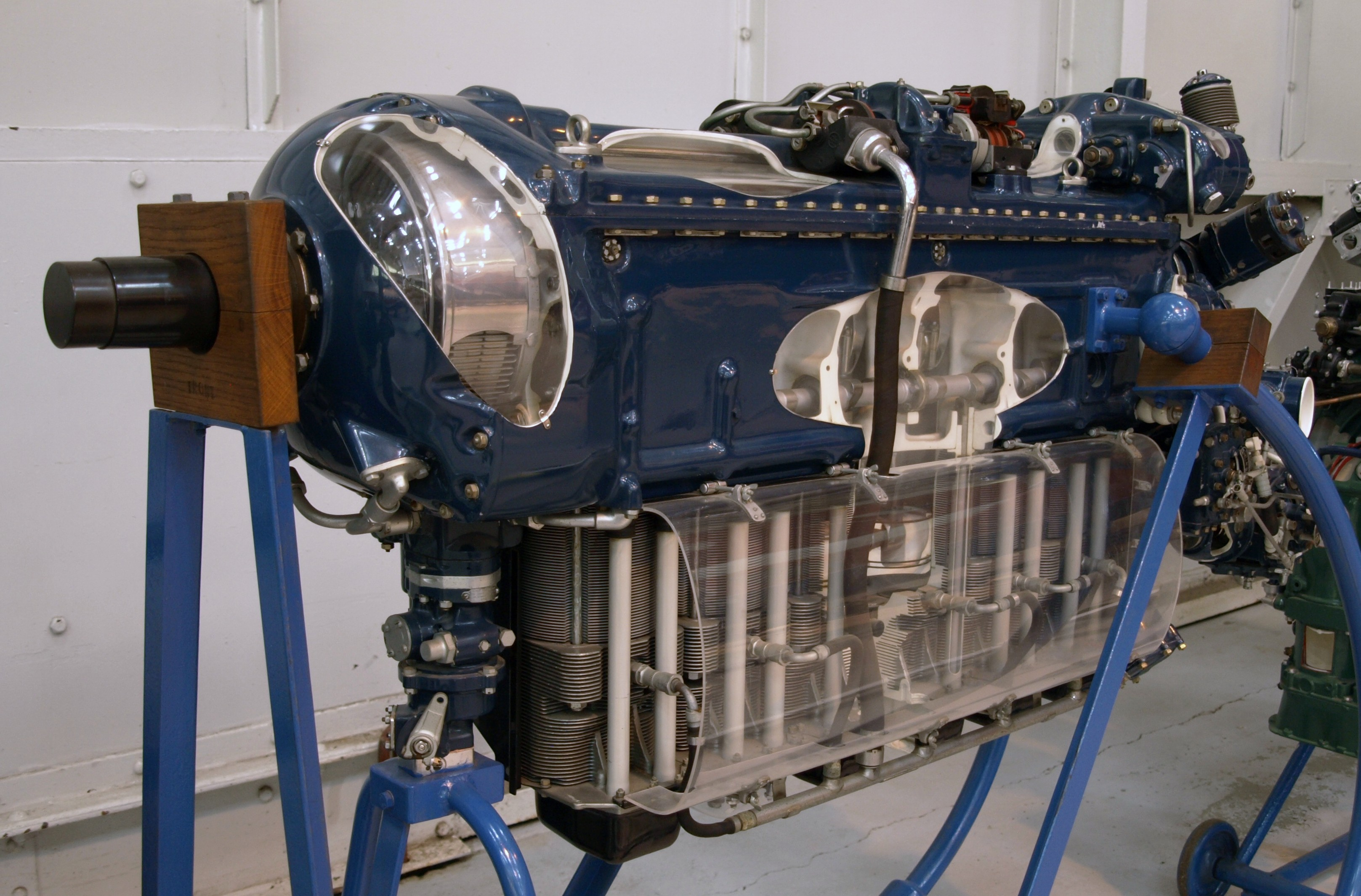 de Havilland Gipsy Queen Mk 70-4 aircraft piston engine at the Royal Air Force Museum, Cosford.